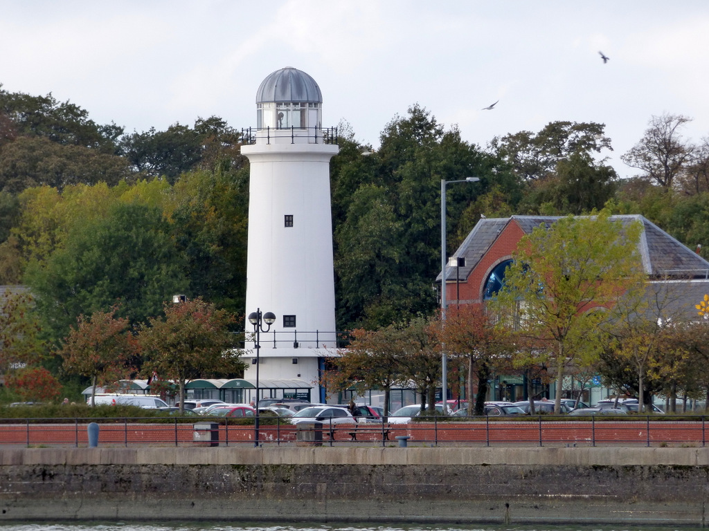 Morrisons Riversway lighthouse at Albert Edward Dock, Preston. The lighthouse is a replica, built for Morrisons supermarket in 1985.